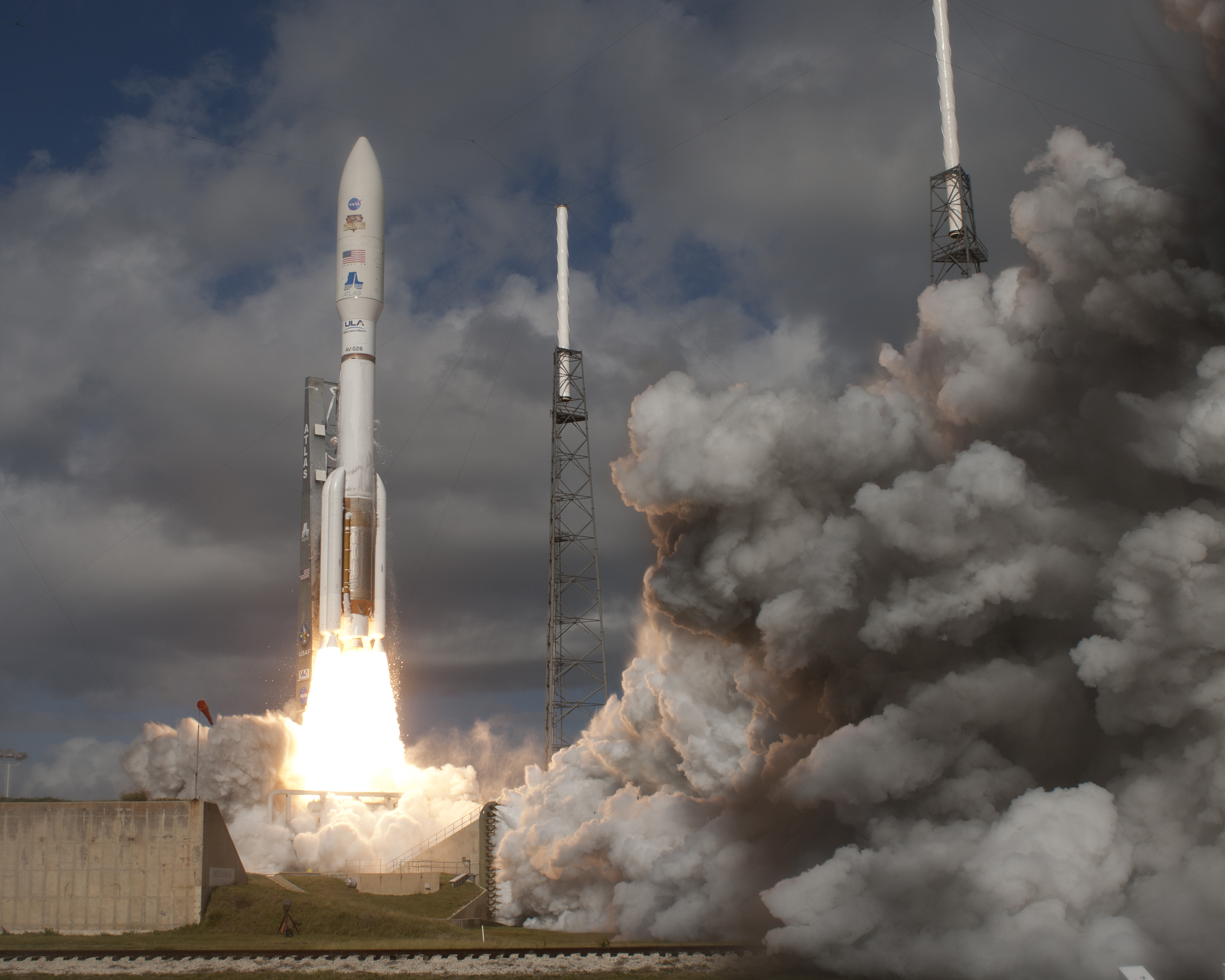 With NASA's Mars Science Laboratory (MSL) spacecraft sealed inside its payload fairing, the United Launch Alliance Atlas V rocket rides smoke and flames as it rises from the launch pad at Space Launch Complex-41 on Cape Canaveral Air Force Station in Florida.